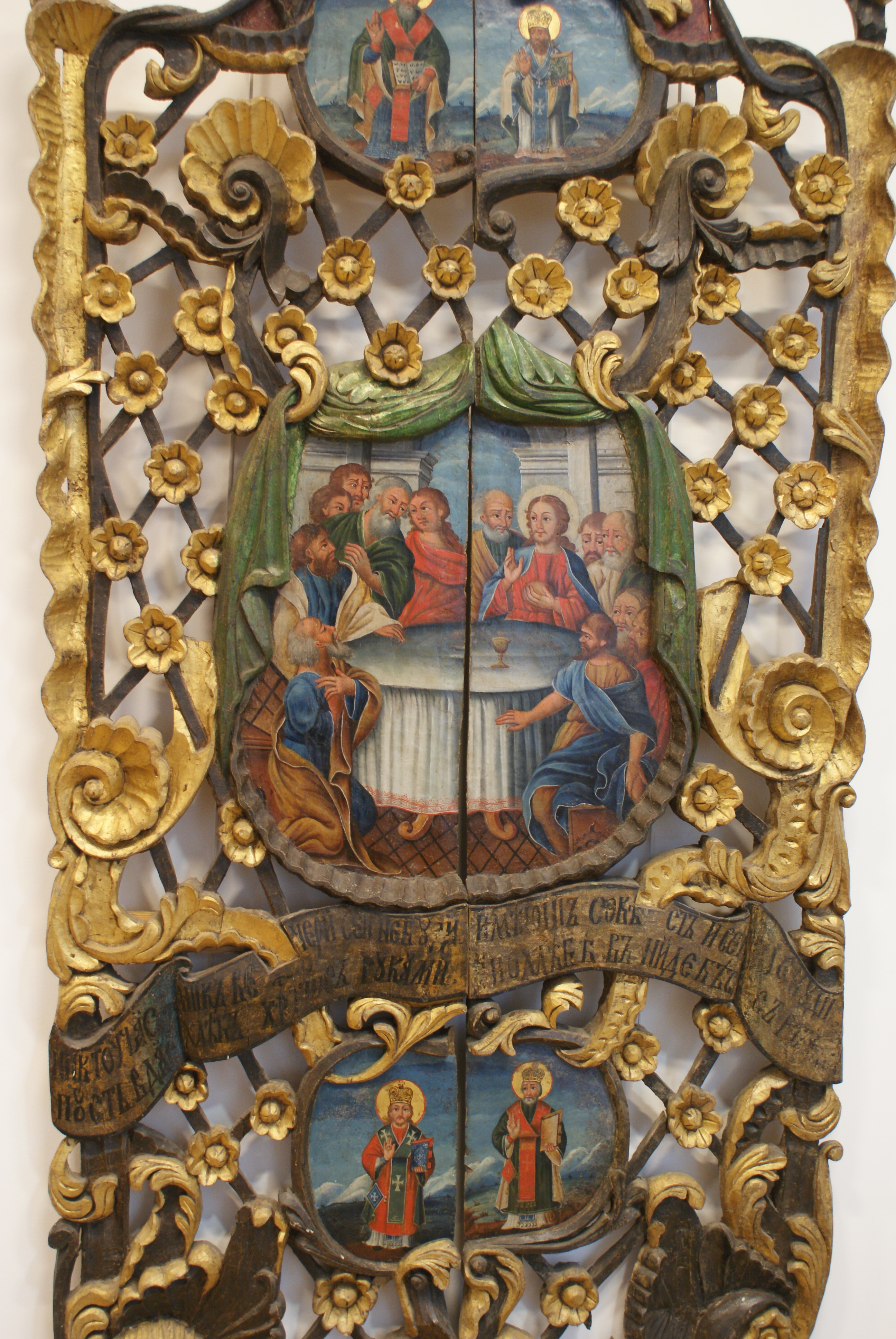 Royal doors. Mid 18th century, wood, carving, gilding Unknown